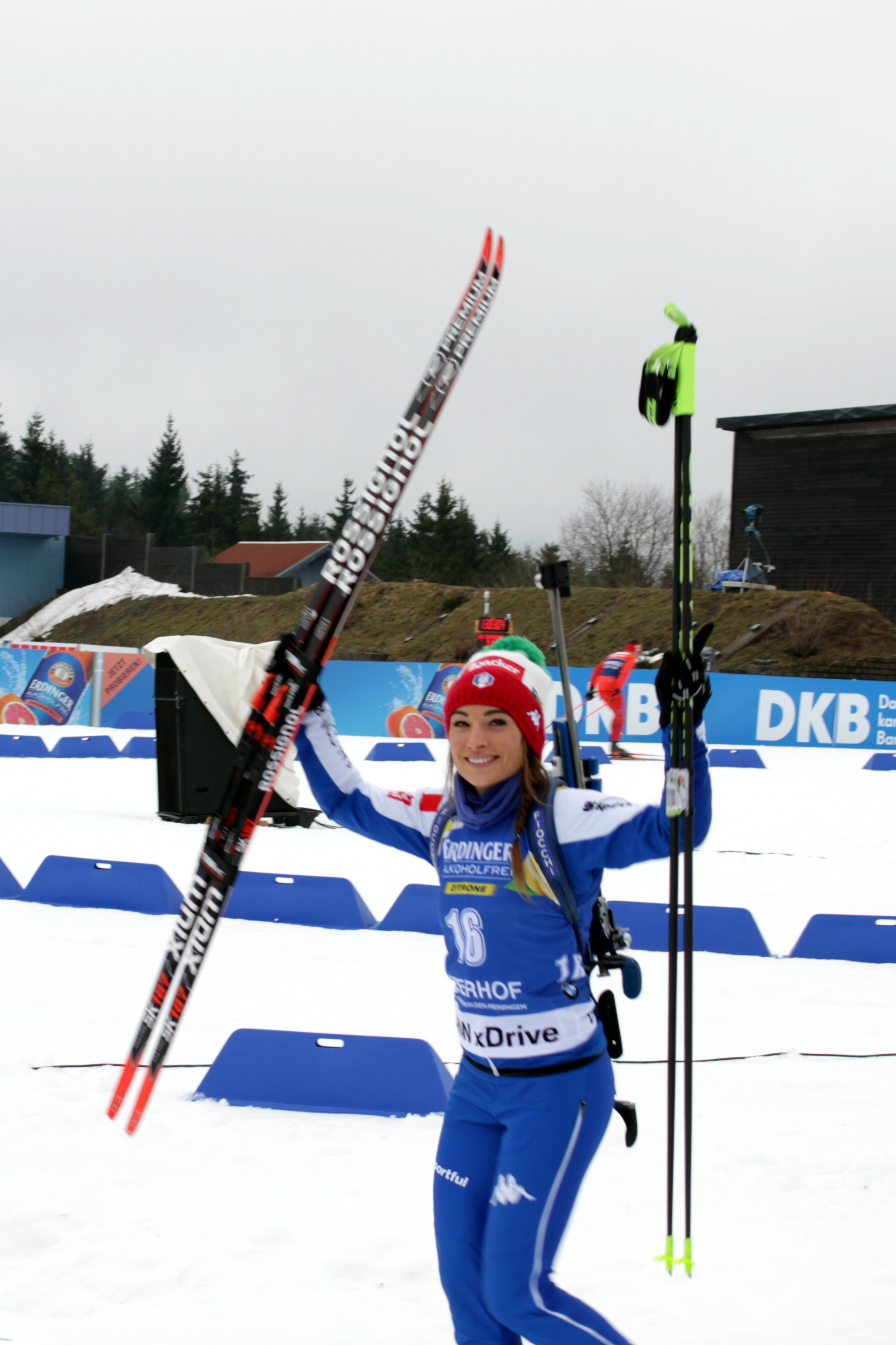 2018 Oberhof Biathlon World Cup - Pursuit Women